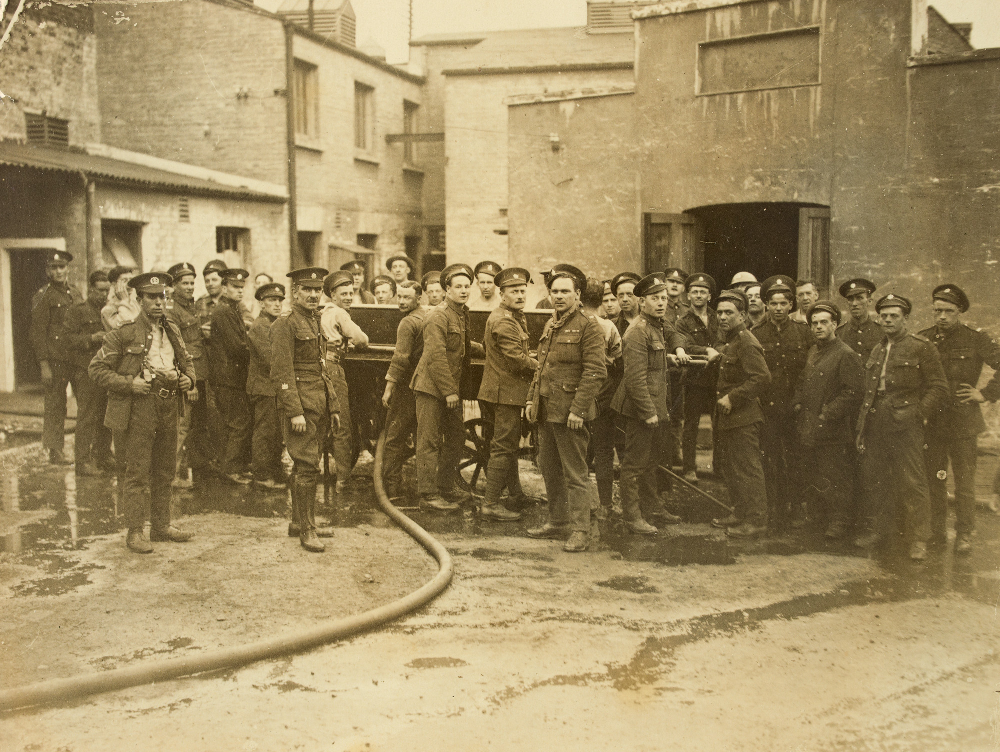 Clean up after fire at former munitions factory, Parkgate Street, Dublin. At the time of the fire the building was being used as the Royal Army Motor Depot. NLI Ref.: HOG158